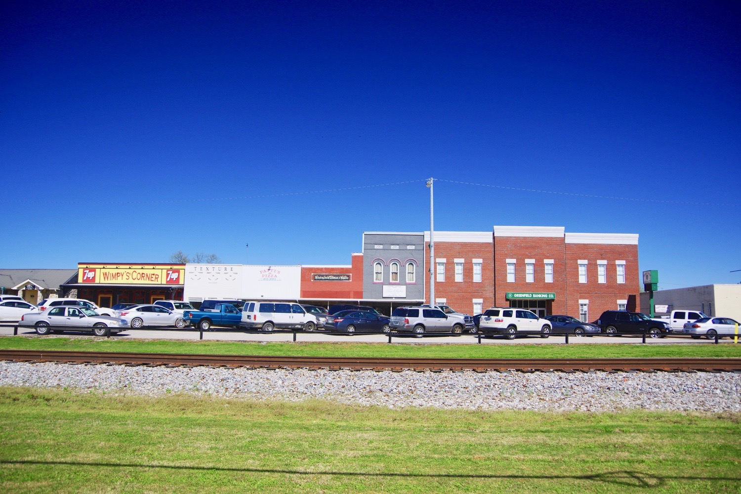 Businesses along Front Street in Greenfield, Tennessee, United States.